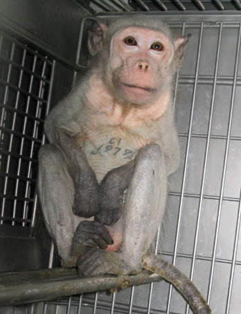 Description: Monkey filmed secretly by PETA in Covance lab. PETA's investigator was hired by Covance as a technician and worked inside the company's primate testing lab in Vienna, Virginia, from April 26, 2004, to March 11, 2005. The investigator's video documentation inside the lab started on July 30, 2004. Used to illustrate the appearance of a typical primate cage in animal-testing facilities according to PETA.